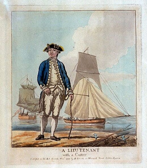 A Lieutenant with a Cutter (uniform); Serres, D (publisher); etching, coloured, Nov 1777